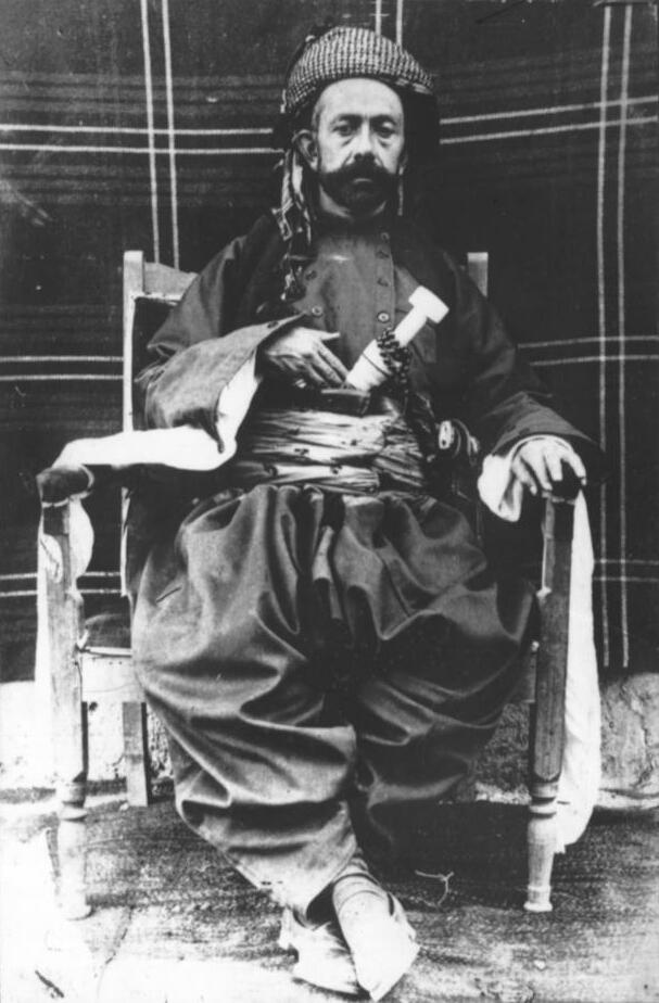 Shiekh Mahmud Barzanji Kurdî: شێخ مەحموودی حەفید